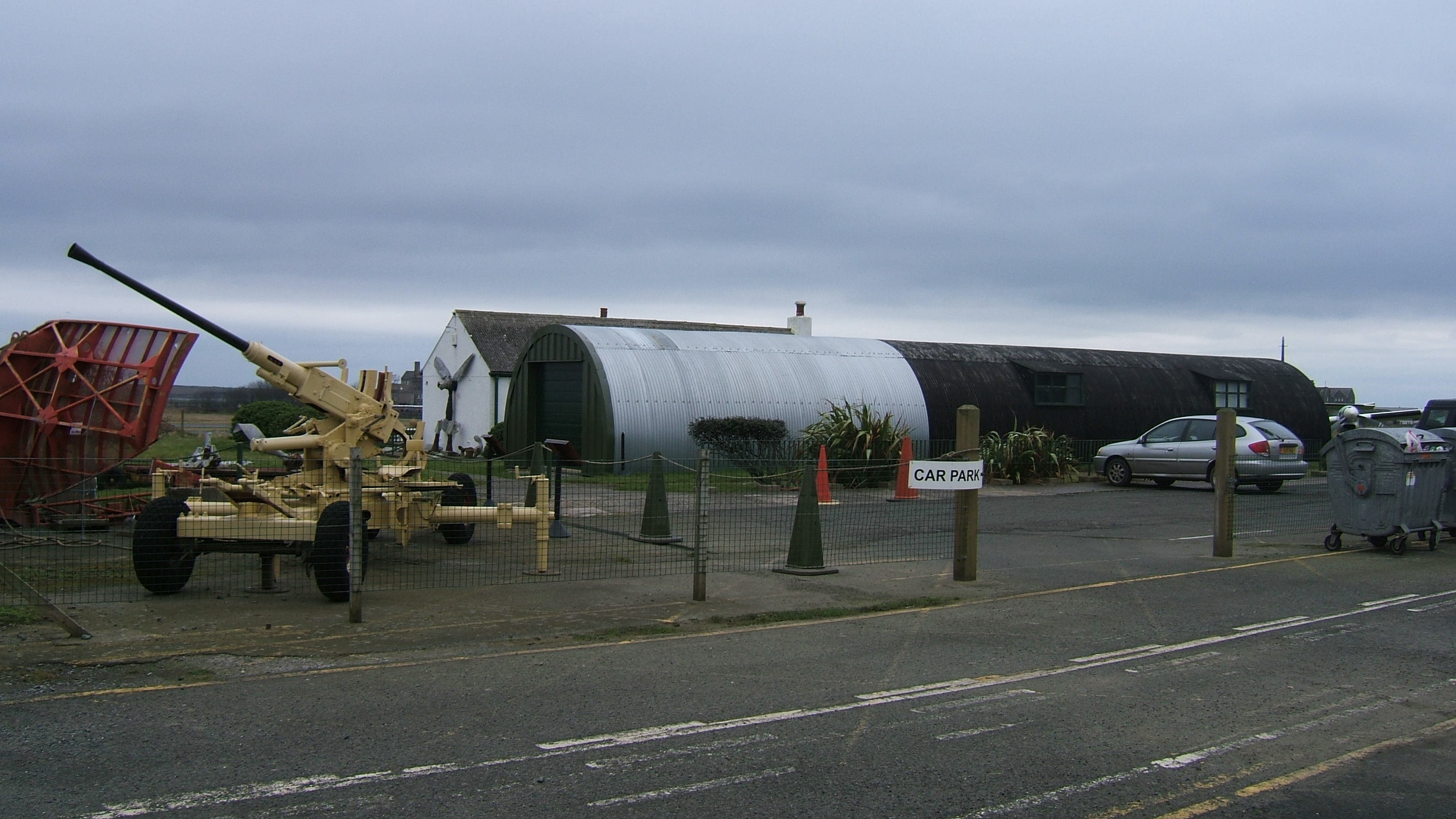 Manx Aviation and Military Museum Ronaldsway. Well worth the visit as it includes the Museum of the Manx Regiment. Free to enter it is run by volunteers. A donation towards running costs is appreciated. See 1707607170742017034341708062